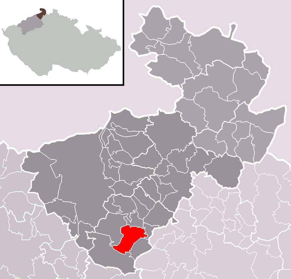 Location of Valkeřice municipality within Děčín District and administrative area of Děčín as a Municipality with Extended Competence.